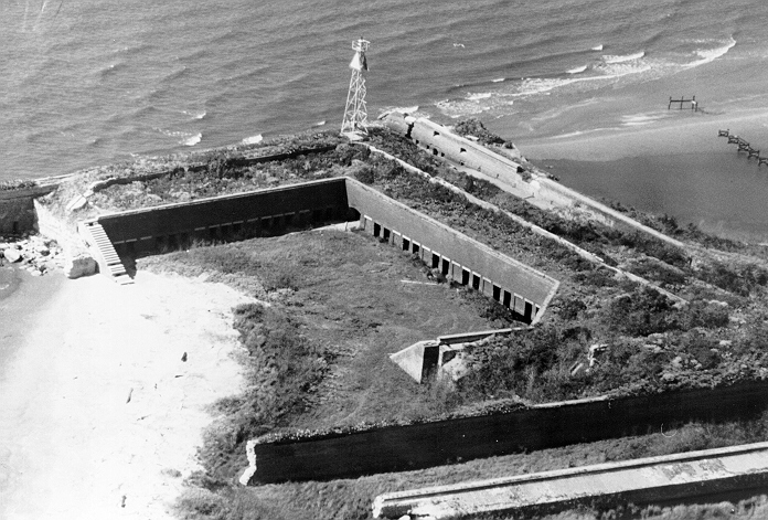 Aerial Photo of ruins of Fort Livingston, Louisiana